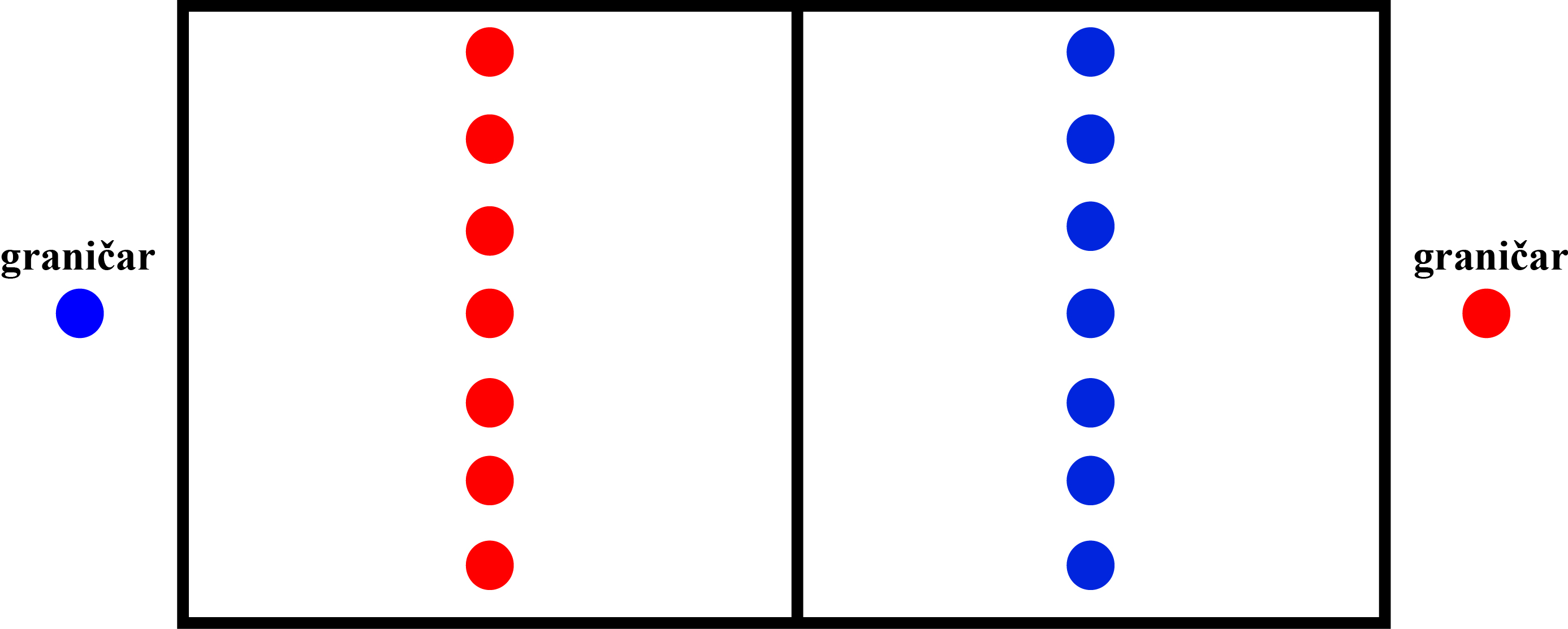 Game "Graničar"